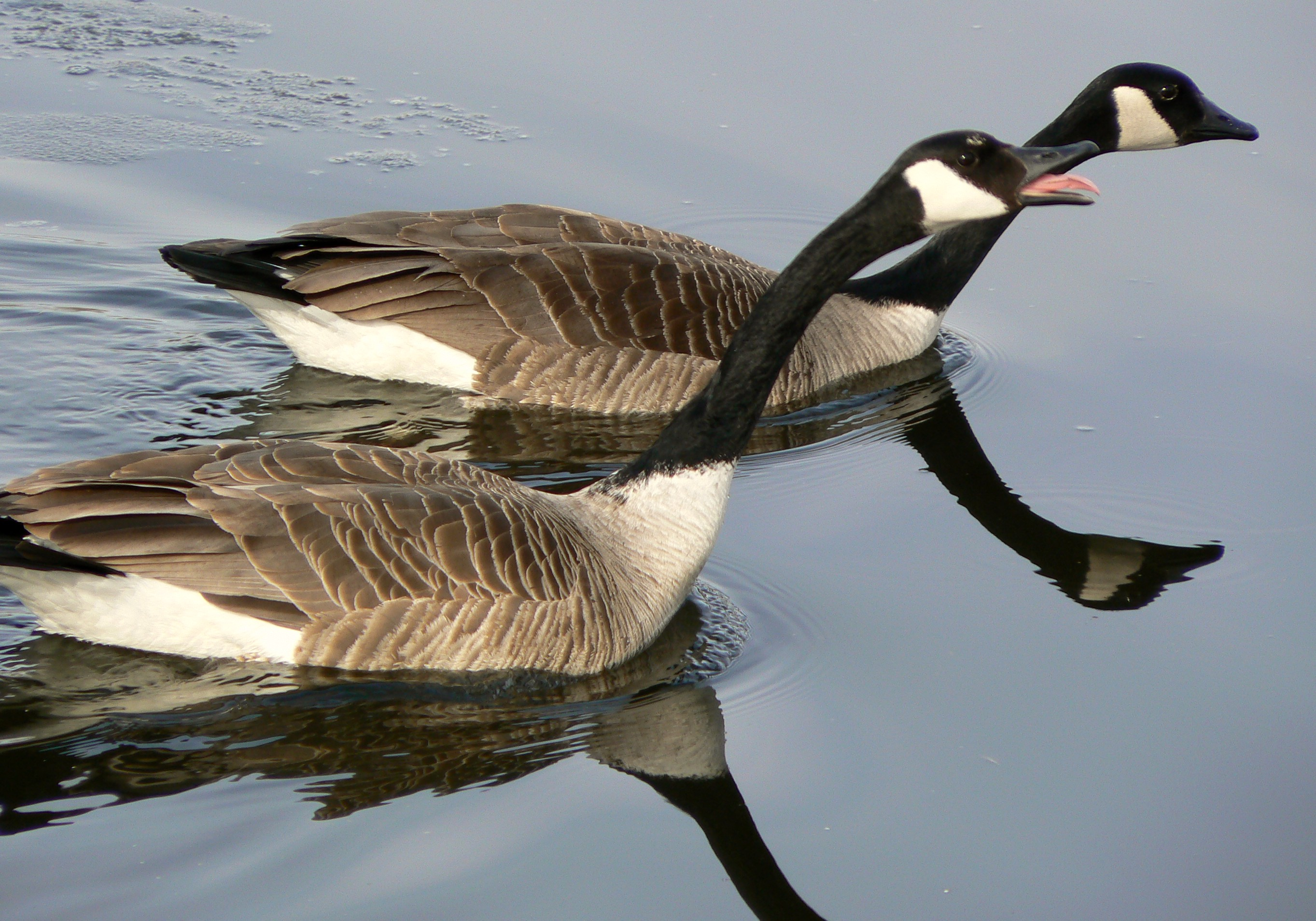 Canada Geese in mating ritual